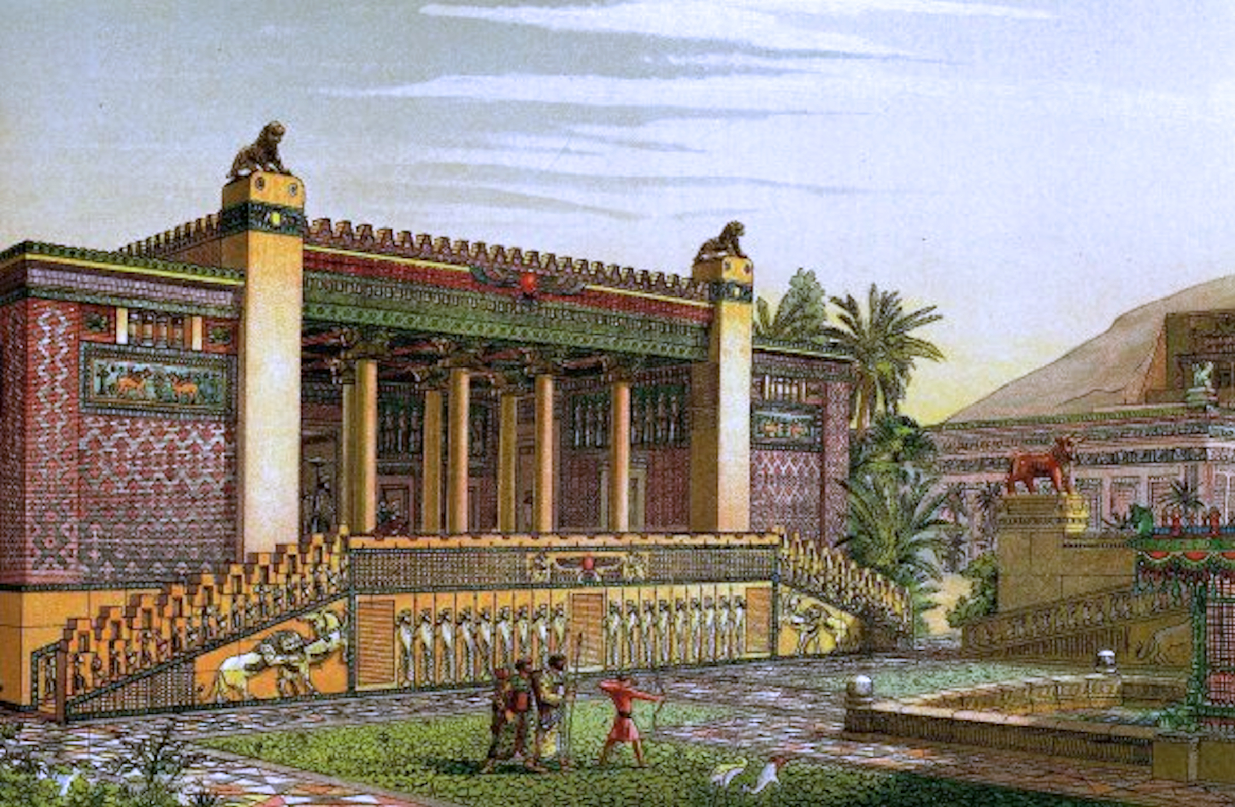 A panoramic view of the gardens and outside of the Palace of Darius I of Persia in Persepolis.Virtual recreation by Charles Chipiez (1835-1901). He created some of the most advanced virtual drawings of what Persepolis would have looked like as a metropolis of the Persian Empire. See: Achaemenid Persian architecture and Persian gardens.